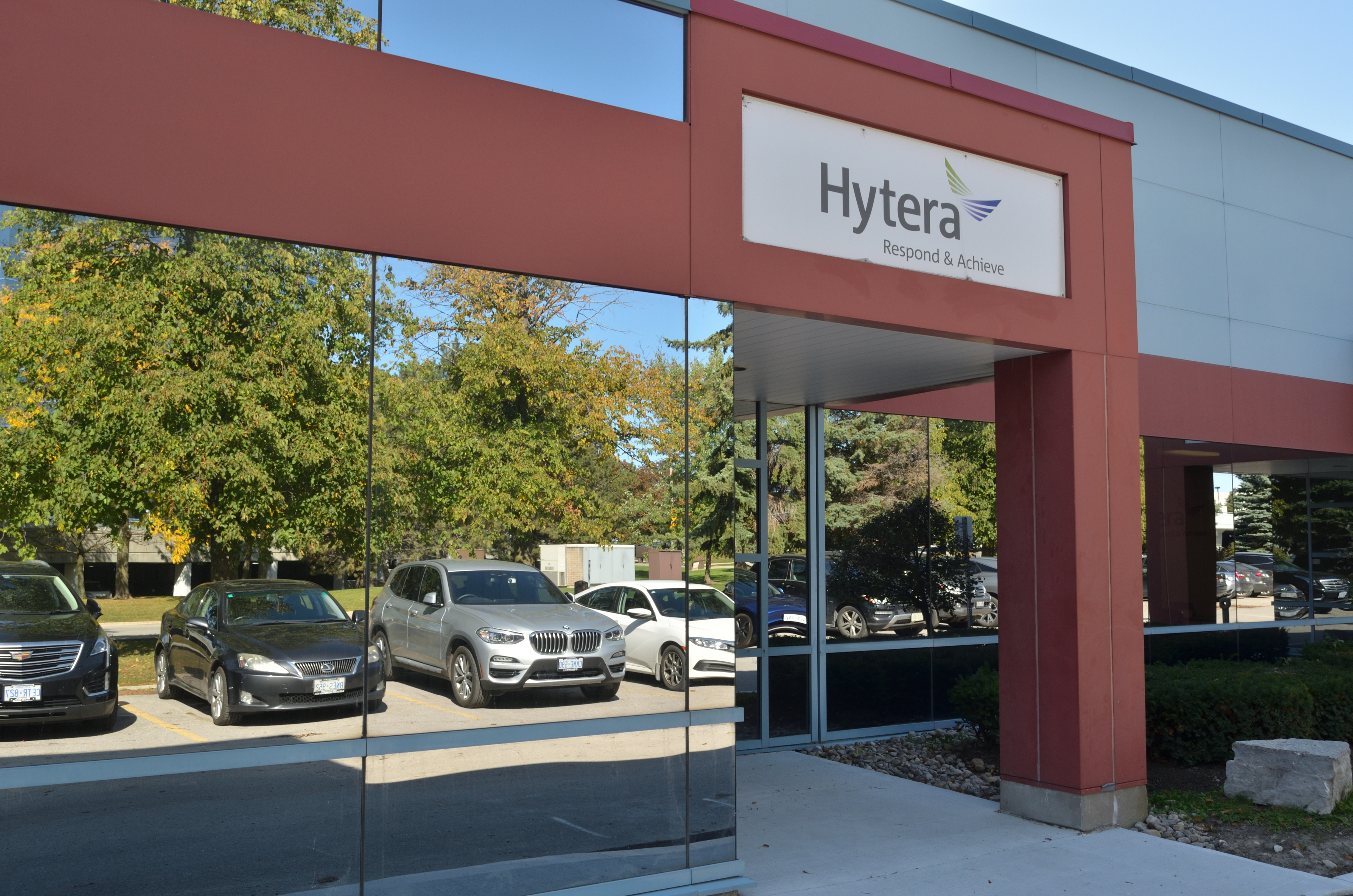 Hytera Richmond Hill office - Address: 100 Leek Crescent #11, Richmond Hill, ON L4B 3E6